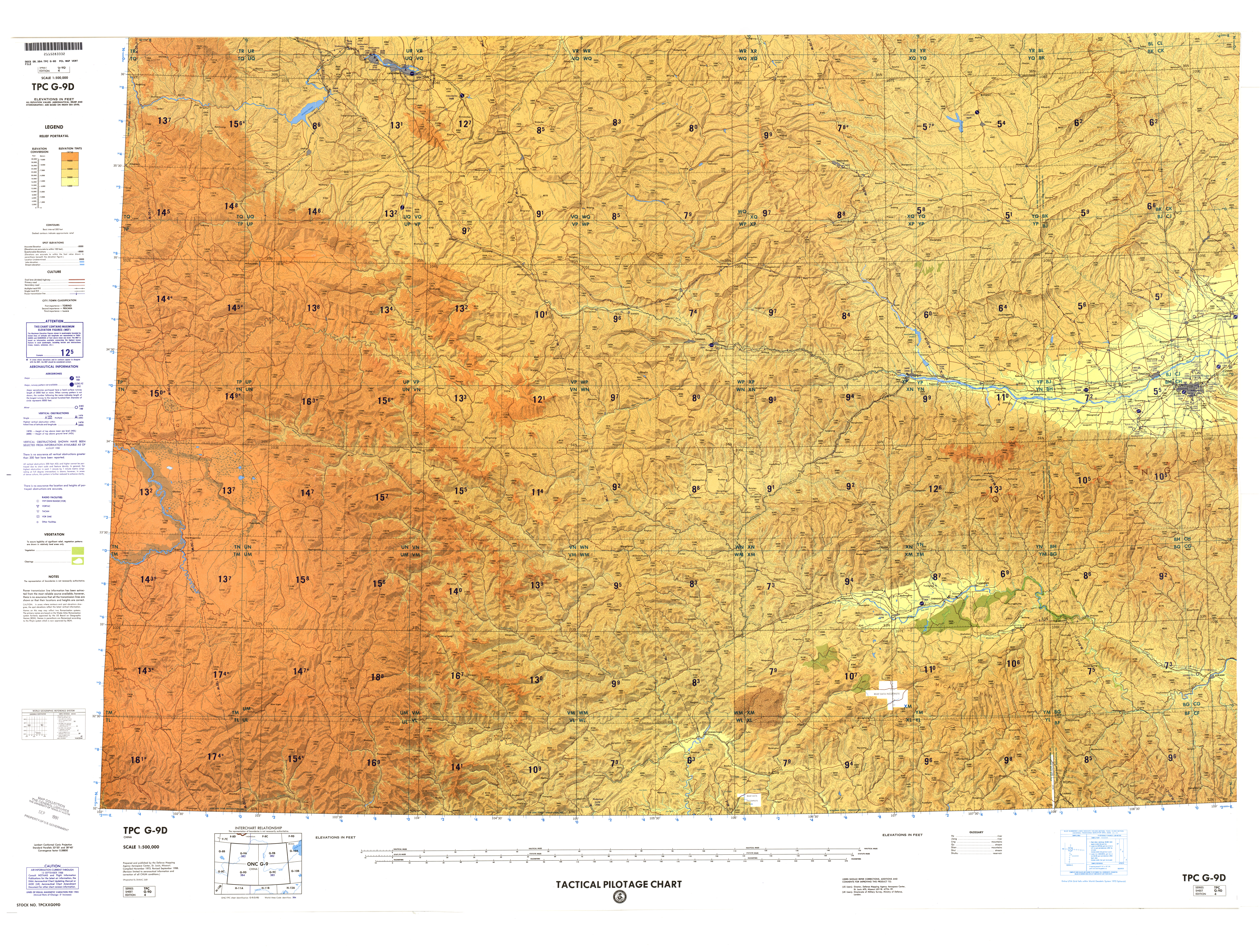 Tactical Pilotage Chart Series - World 1:500,000 Scale